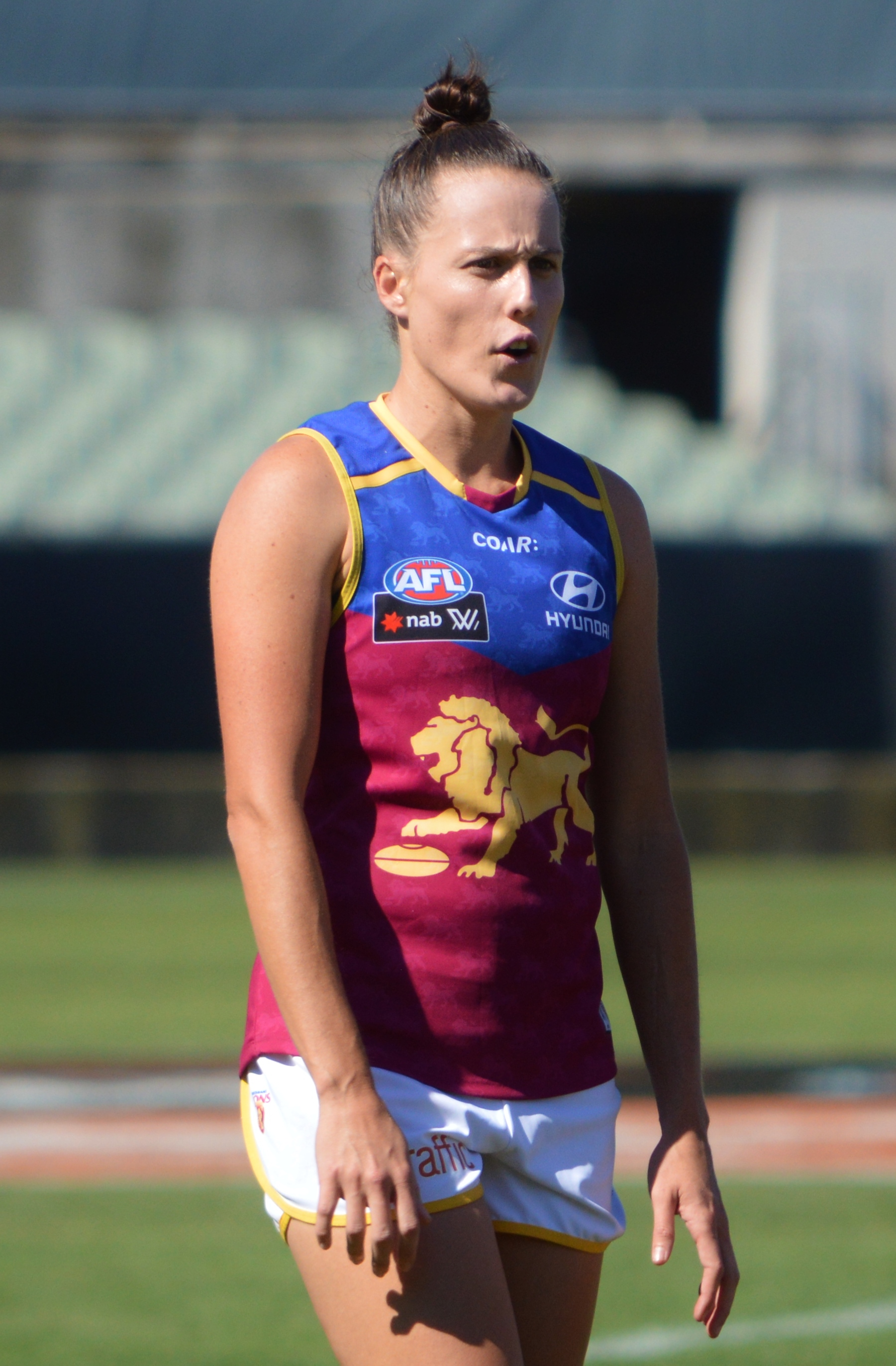 Emma Zielke in Round 7 of the 2017 AFL Women's season